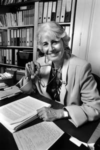 Anne-Catherine Menétrey